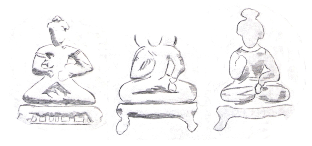 Representation of Maitreya in Kushan coins. Personal drawing 2006.